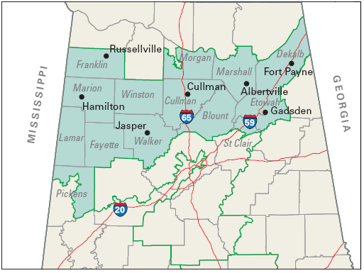 Alabama's 4th district.